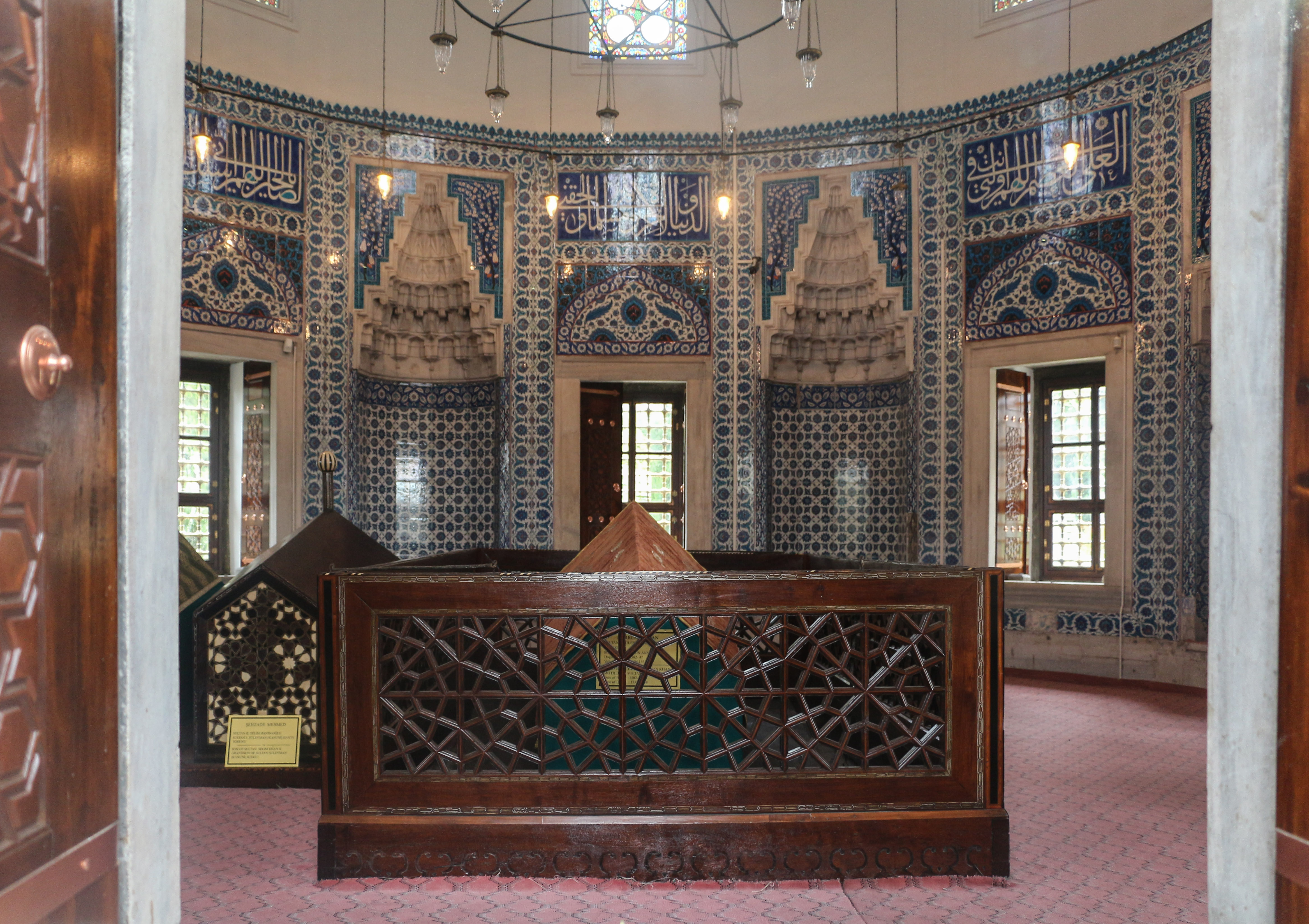 Mausoleum of Roxelana near Süleymaniye Mosque, Istanbul